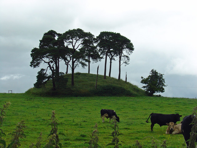 Neolithic burial mound: Lattin, Co. Tipperary